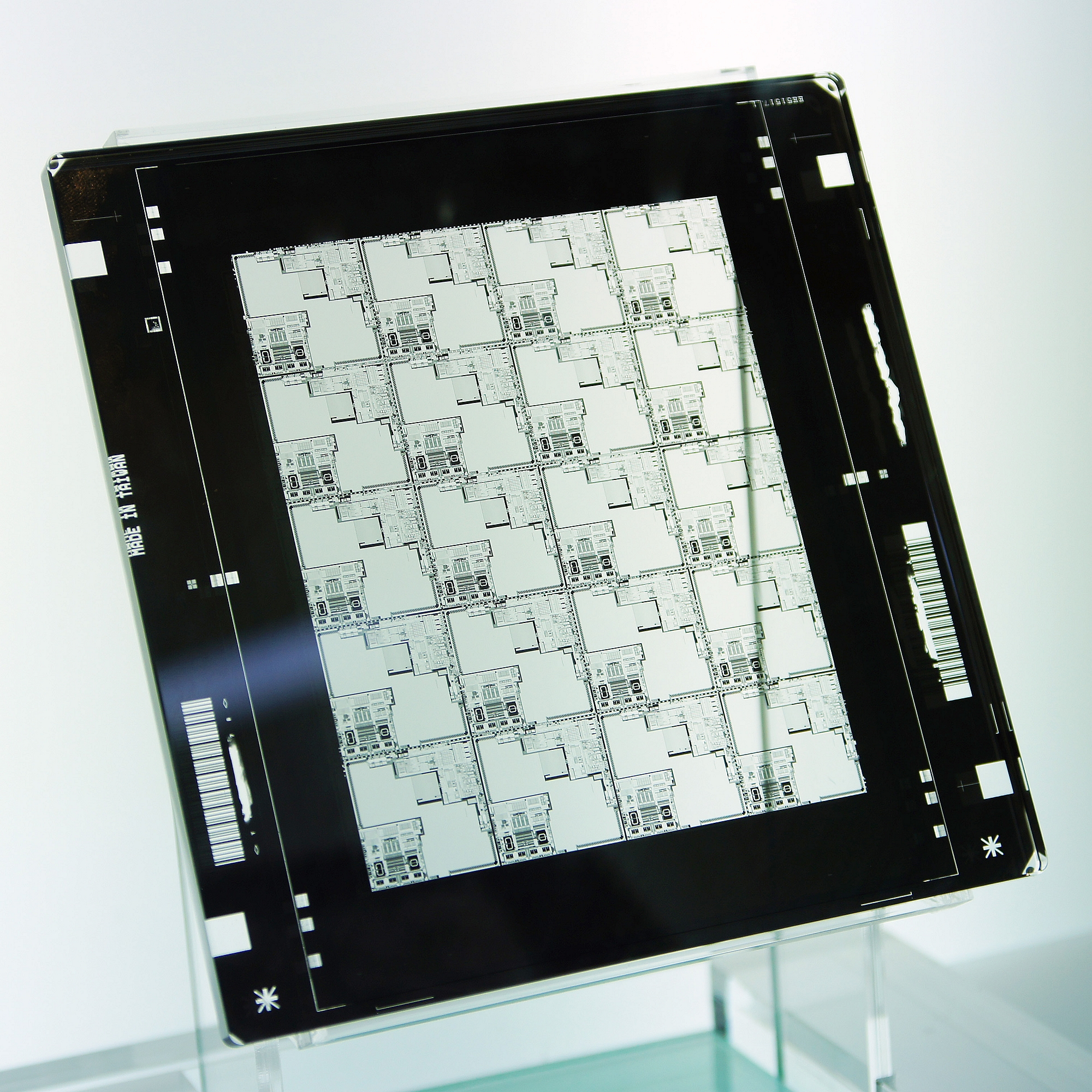 A photomask